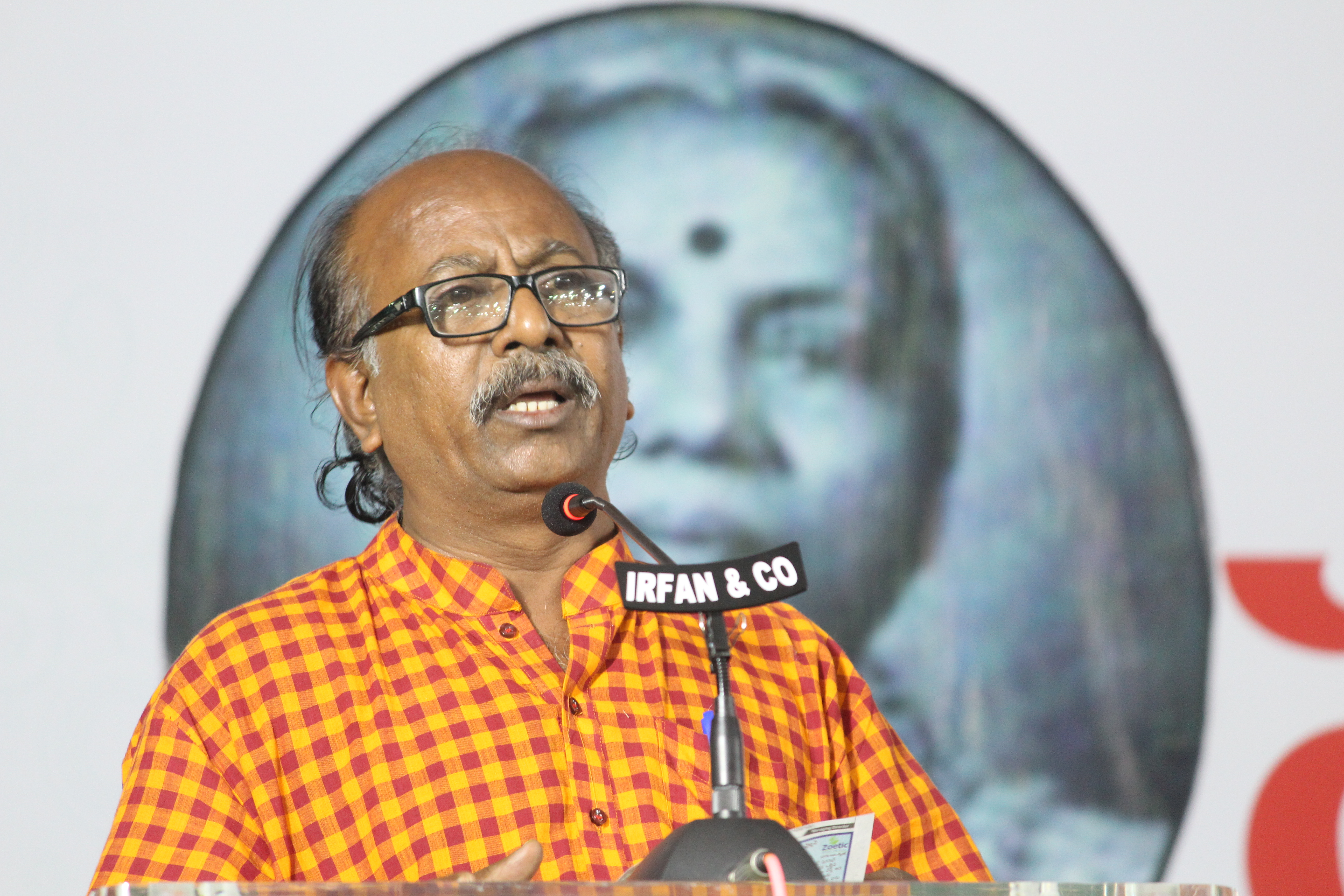 Kavi Siddartha at Hyderabad Book Fair 2018